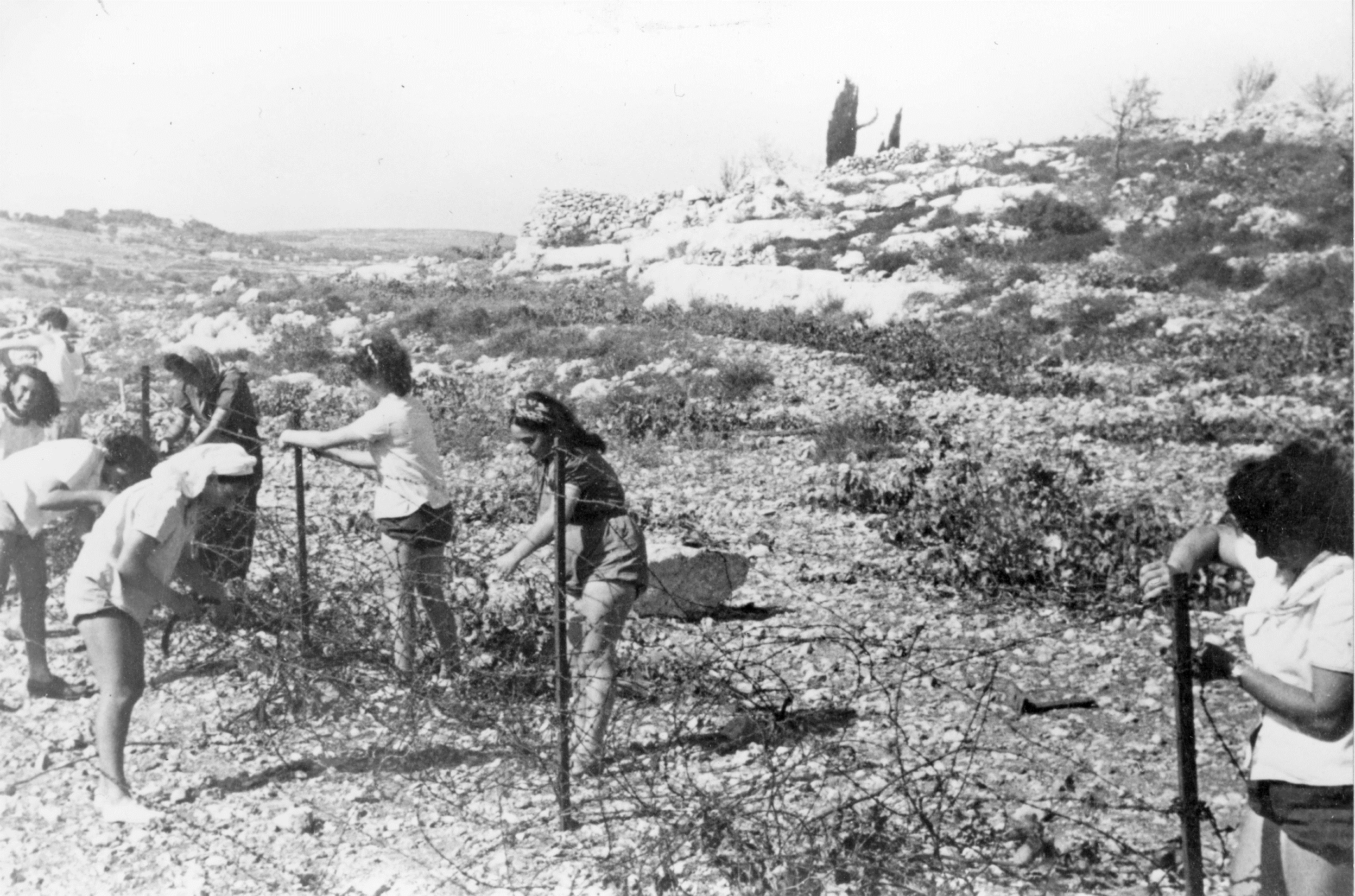 The Palmach, Israel Defense Forces